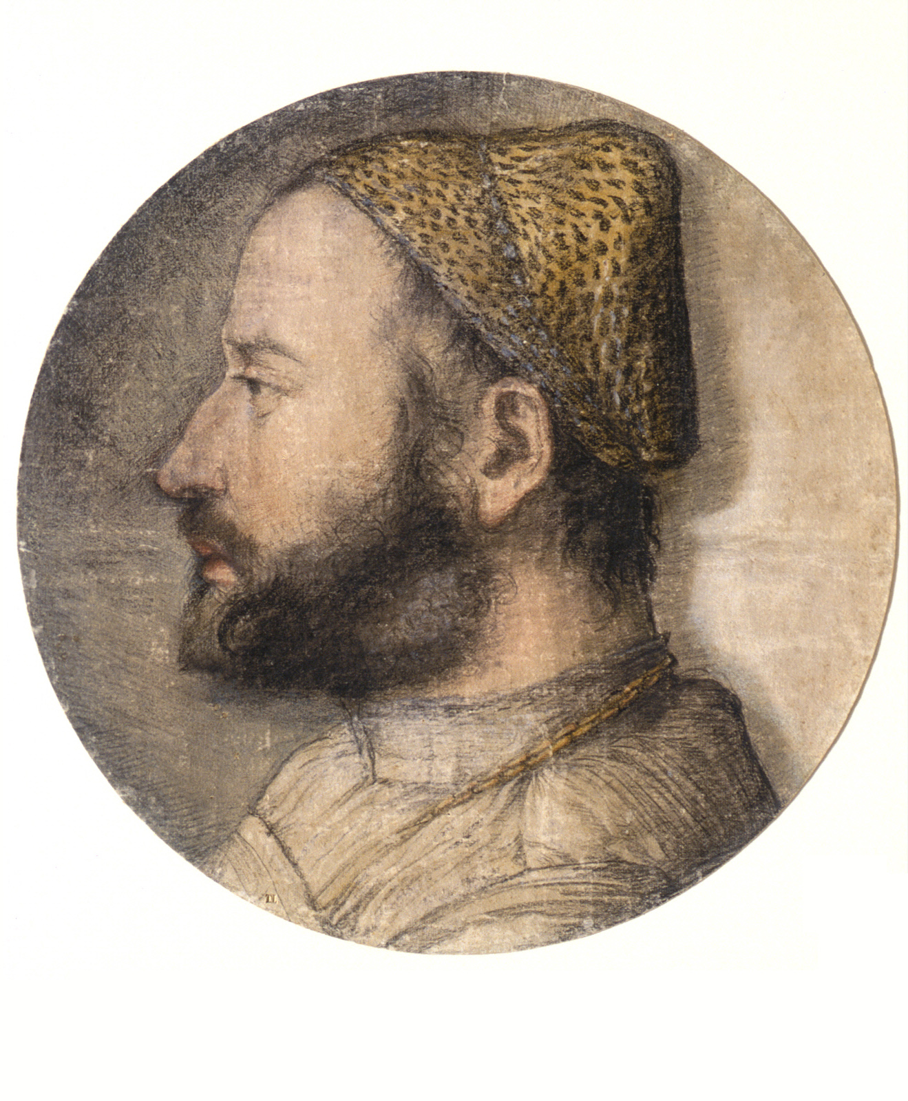 Portrait of Georg Hörmann, possibly conceptual design for a medal